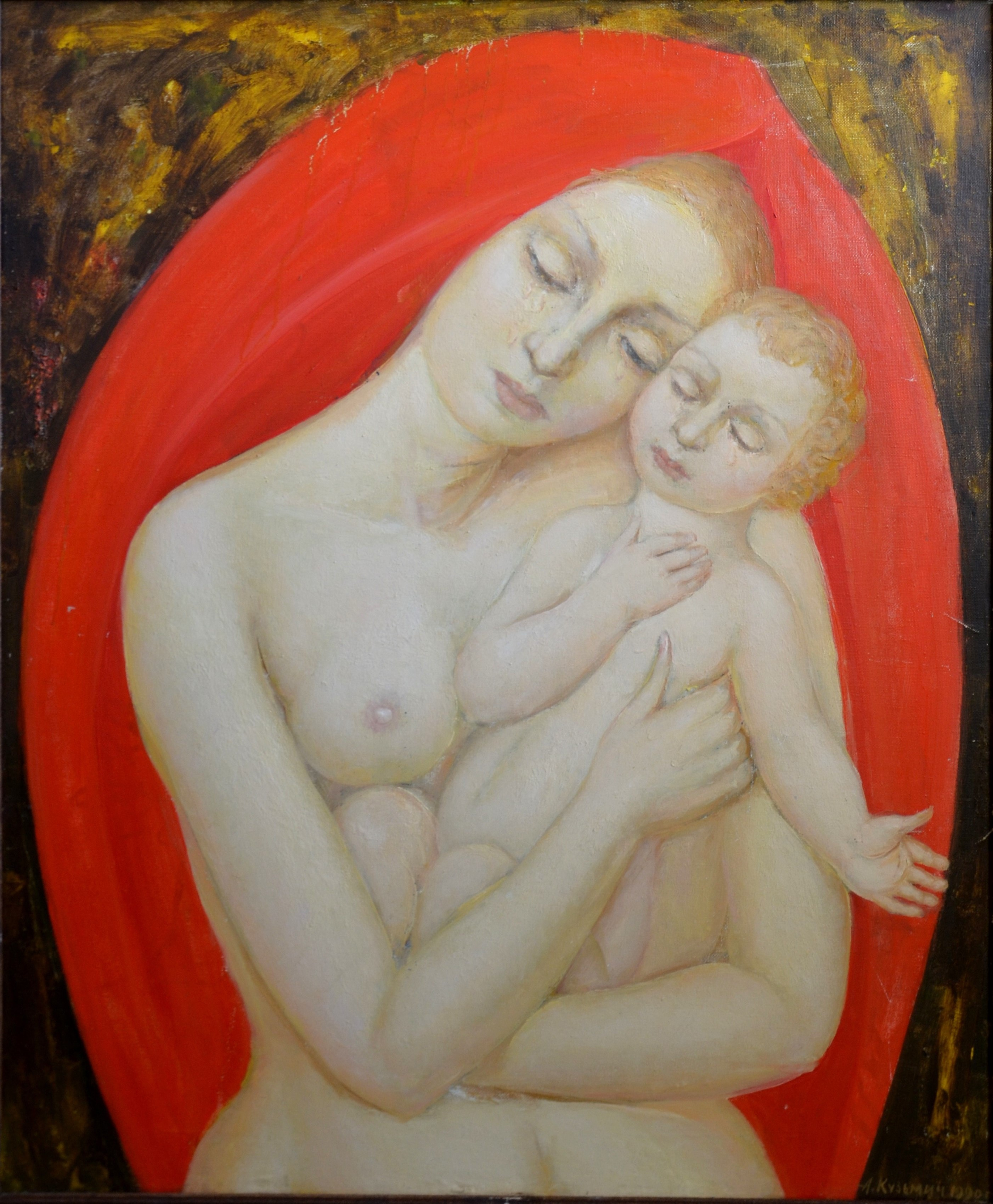 Alexei KUZMICH Red Madonna / 1990 / 120 х 100cm / oil,canvas